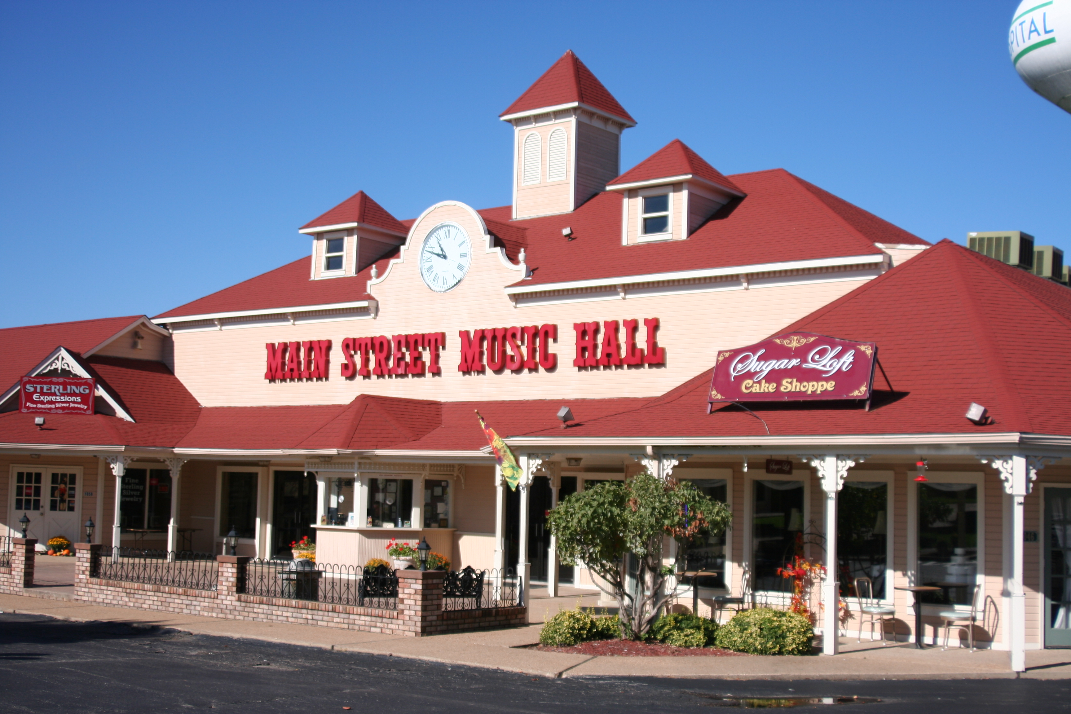 The Main Street Music Hall in Osage Beach, Camden County, Missouri, USA.